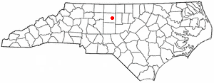 Category:North Carolina Dot Maps